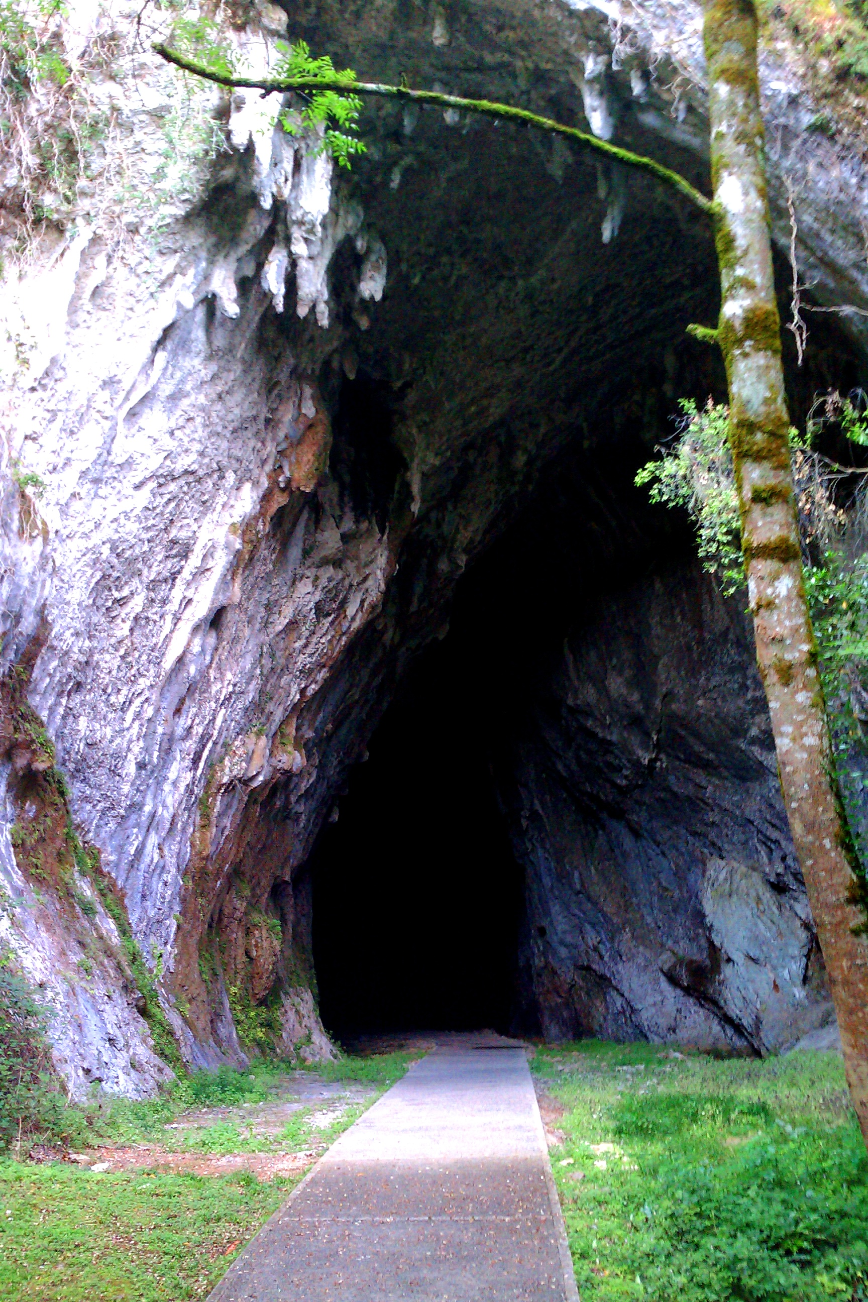 Entrance to the Cave of Cullalvera in Ramales de la Victoria (Cantabria, Spain)